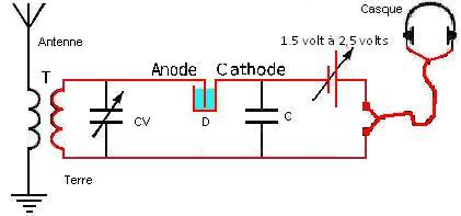 Circuit of an early radio receiver with electrolytic detector, from the very start of the 20th century. A battery and potentiometer apply a small bias voltage to the electrolytic detector. The electrolytic polarization of the anode is very fast. The anode is a very fine platinum wire 1/100 of millimetre in diameter, while the cathode is a lead or platinum plate or large wire. The alternating signal from the tuned circuit partially depolarizes the anode in response to the amplitude modulation, which draws a DC current from the battery which varies with the modulation, to repolarise the anode. This current passes through the earphone, which converts the audio current to sound. The electrolytic detector functions with a bias voltage of between 1.5 and 2.5 volts. To adjust it, the bias voltage is first adjustad to maximum, 2.5 volts. As soon as water bubbles indicate that electrolysis is occurring, and a noise is heard in the earphone, the bias voltage is slowly turned down until the noise completely disappears. Then the antenna is connected. The detector must be readjusted in the event of a change of temperature, barometric pressure, vibration, or shock. The electrolytic detector has a sensitivity of 7 nanowatts. It is unstable when subjected to movement or vibration, so it is only usable in fixed stations, not in portable or mobile radios, ships, aircraft, or airships. It was only used in early receivers for a short time due to its complexity of maintenance.